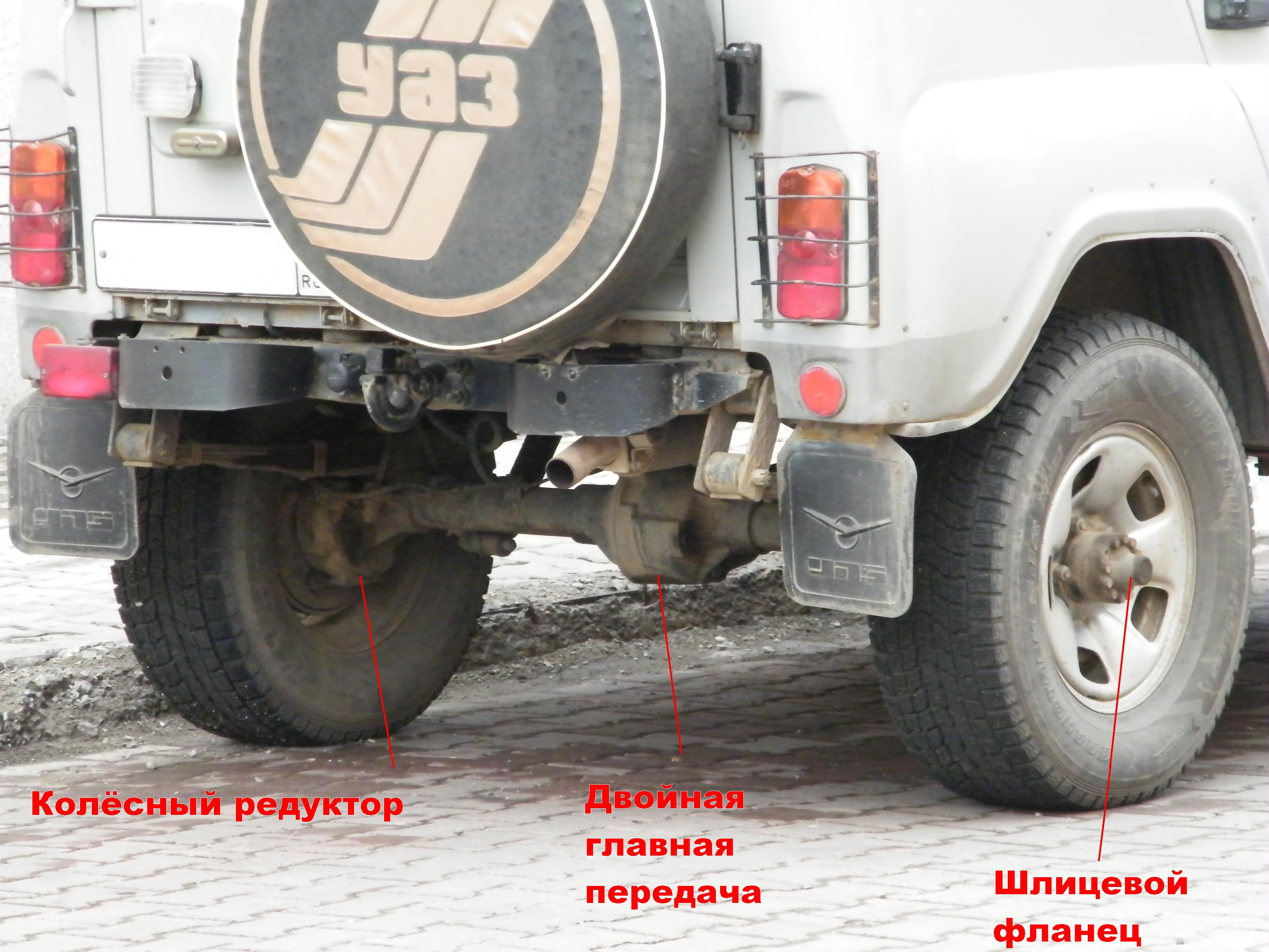 Редукторный задний мост УАЗ